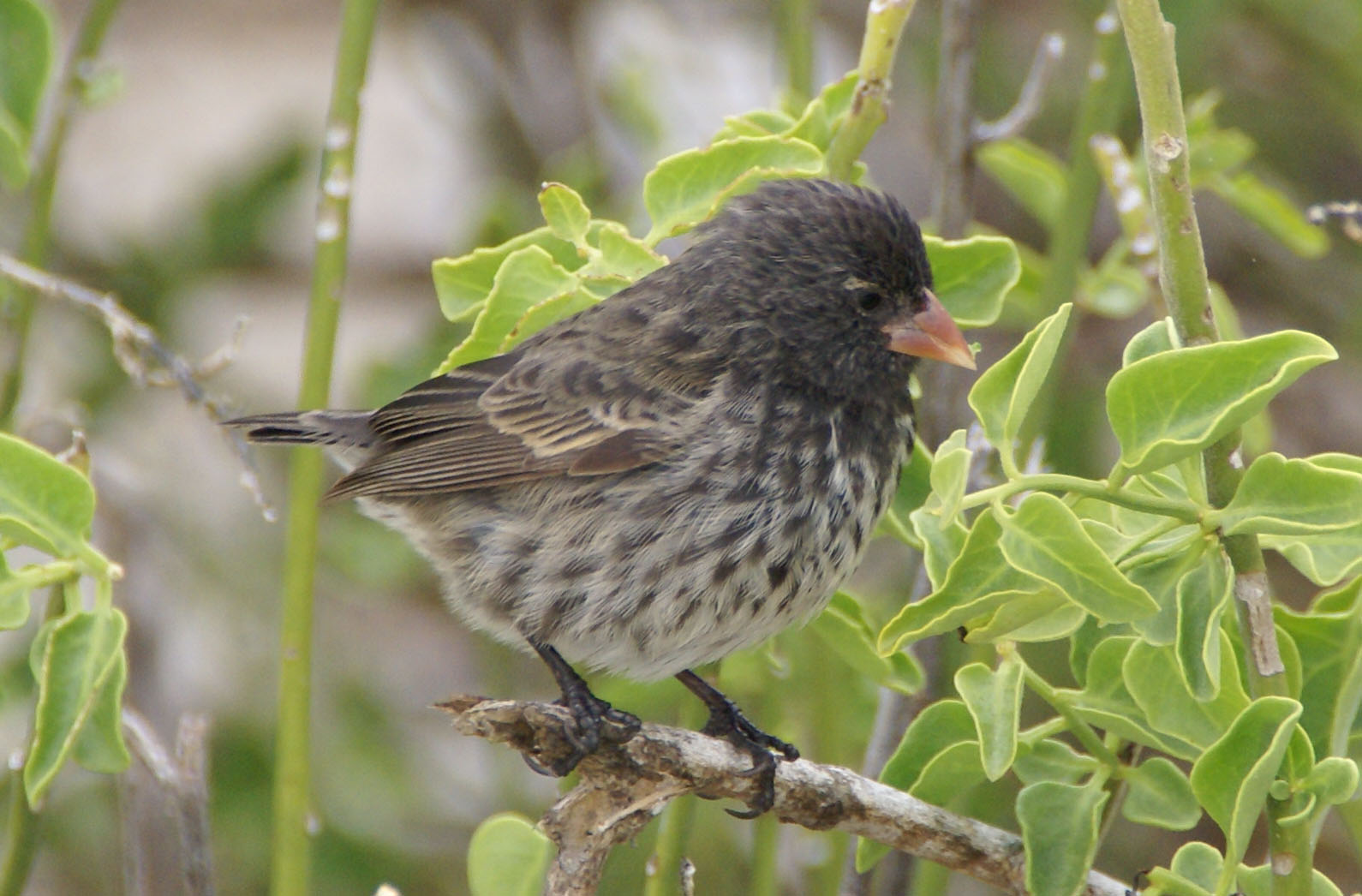 Small Ground-finch (Geospiza fuliginosa). Española Island (Galápagos Islands, Ecuador).